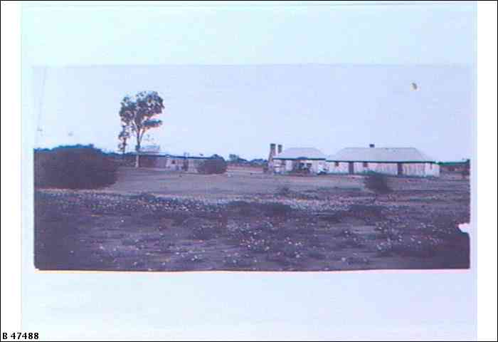 Nilpena c1897